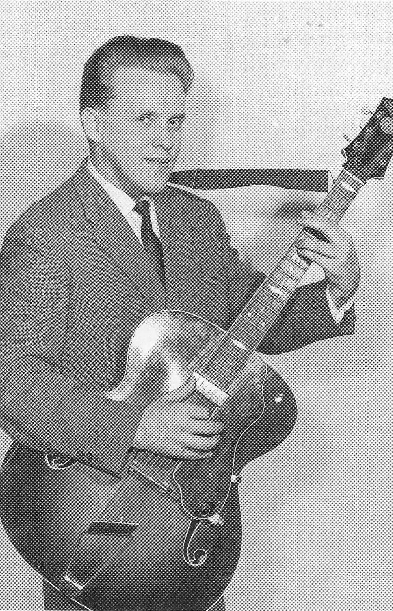 Reino Markkula, finnish composer